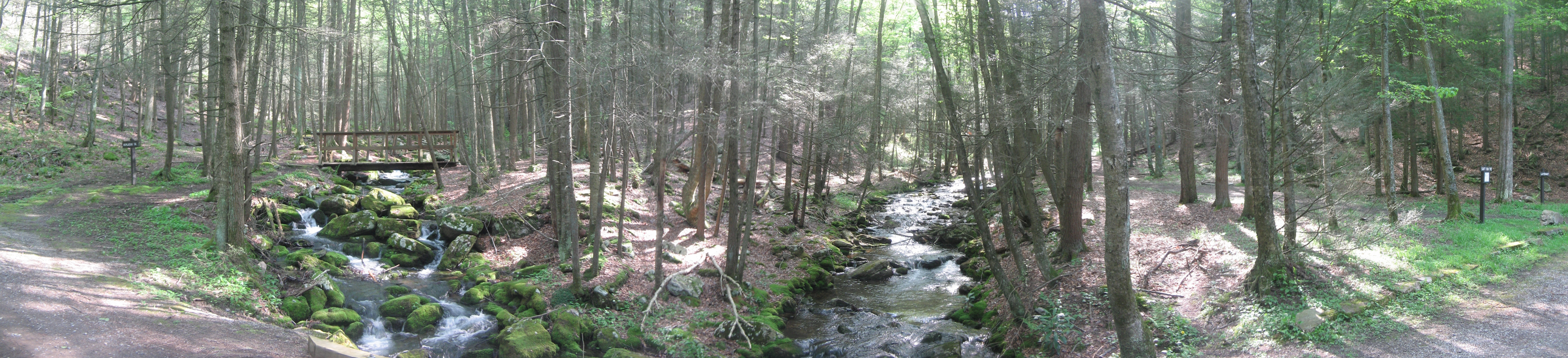 Panorama of two branches of Swift Run in the Snyder Middleswarth Natural picnic area at Snyder Middleswarth Natural Area, in Bald Eagle State Forest, Spring Township, Snyder County, Pennsylvania, USA. The Hemlocks Trail begins at the left side and the Swift Run trail begins at the right side - both run through old growth forest along Swift Run.